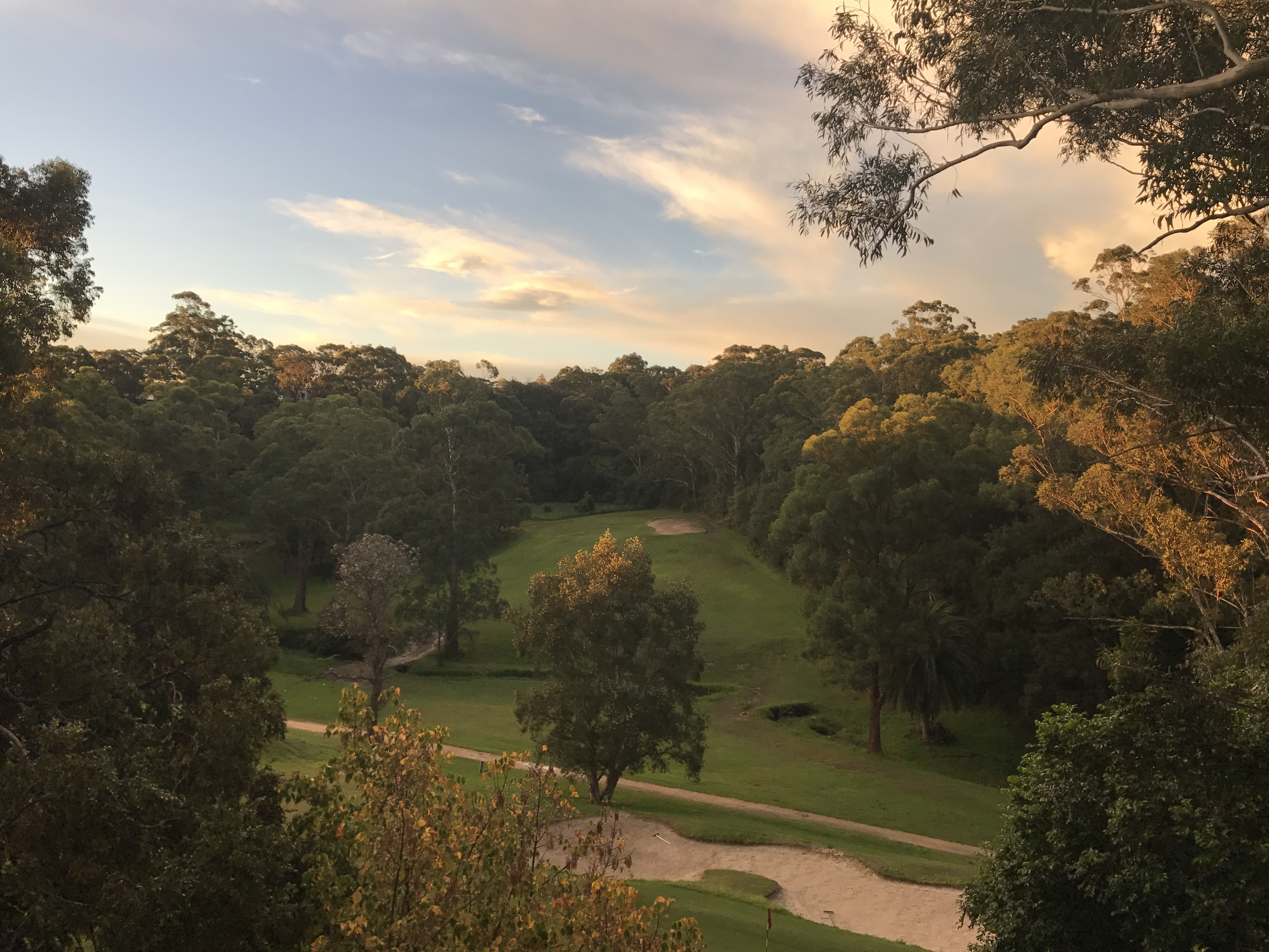 View from residential property onto Chatswood Golf Club.